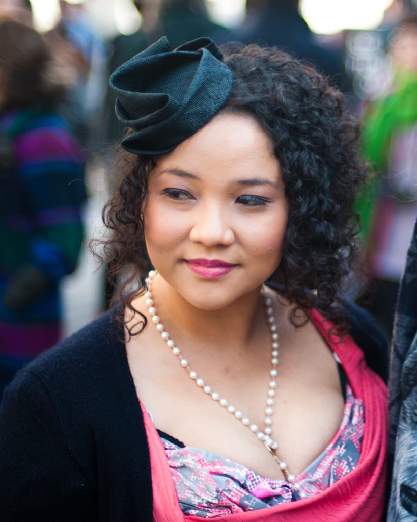 Filipina fashion designer Mich Dulce at London Fashion Week a few days before she was announced the winner of the International Young Creative Entrepreneur award for Fashion